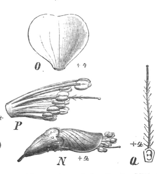 Illustration from book